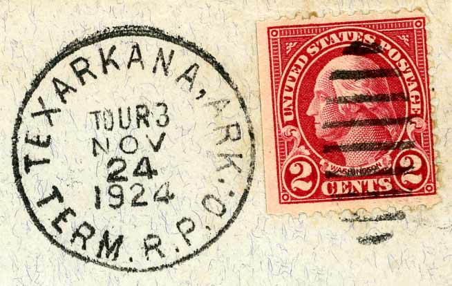 Image is a scan, made by me, of a ca. 1924 United States postage stamp and postmark in my collection. RI-Bill 04:19, 19 April 2006 (UTC)